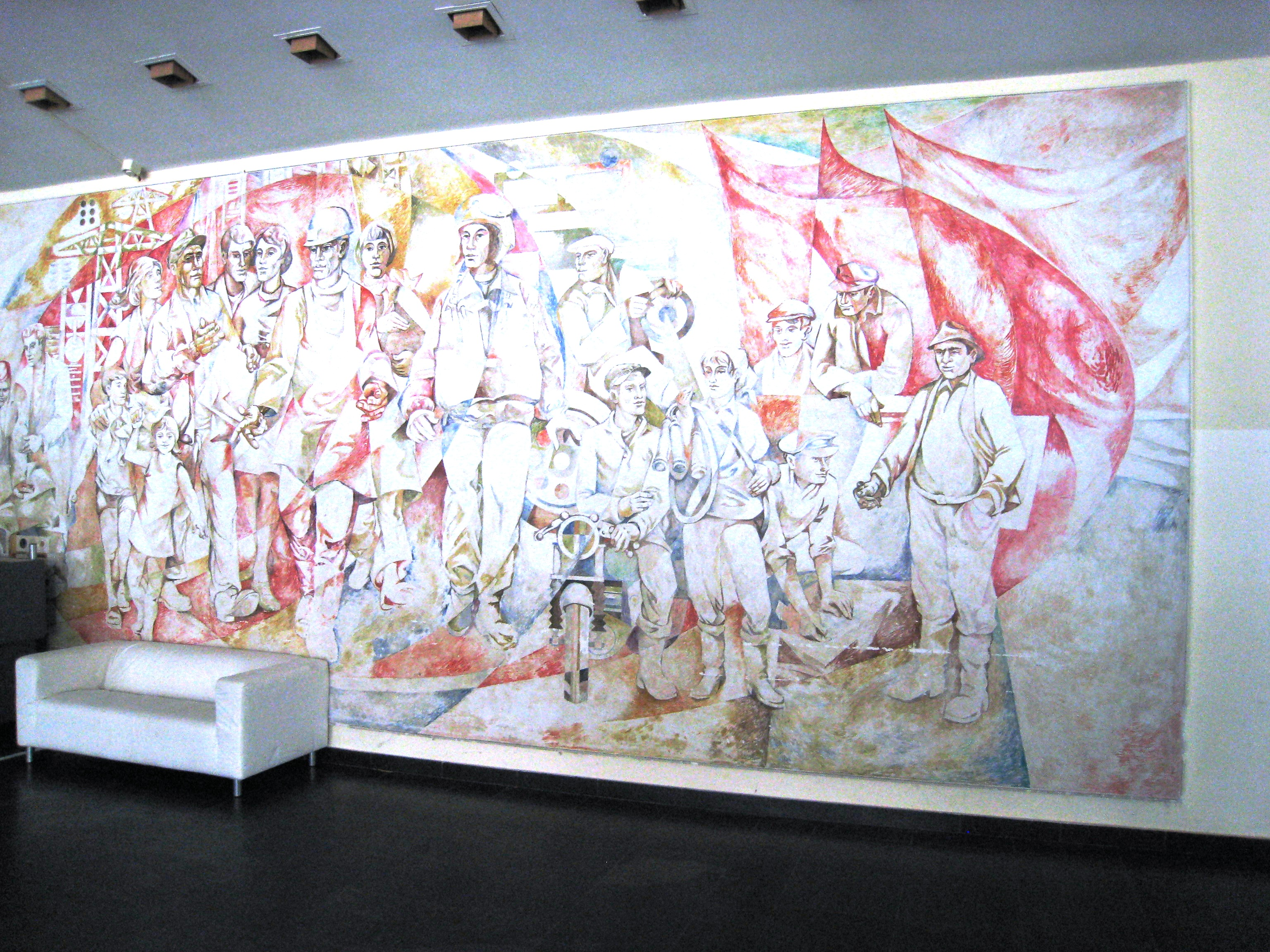 SED political school Erfurt, Werner-Seelenbinder-Strasse 14